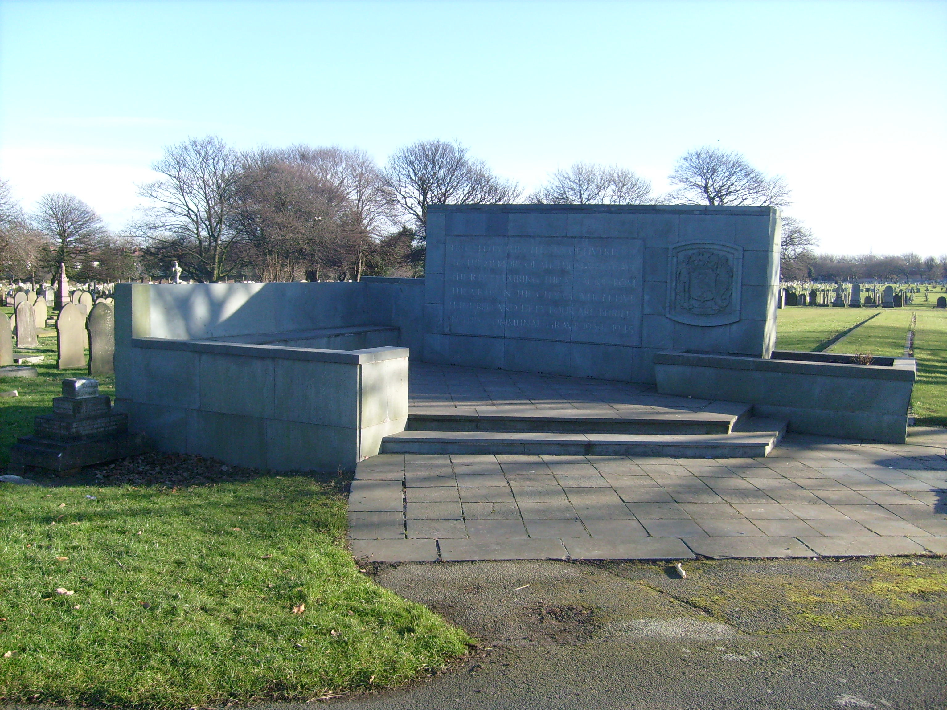 Anfield Cemetery Feb 11 2010